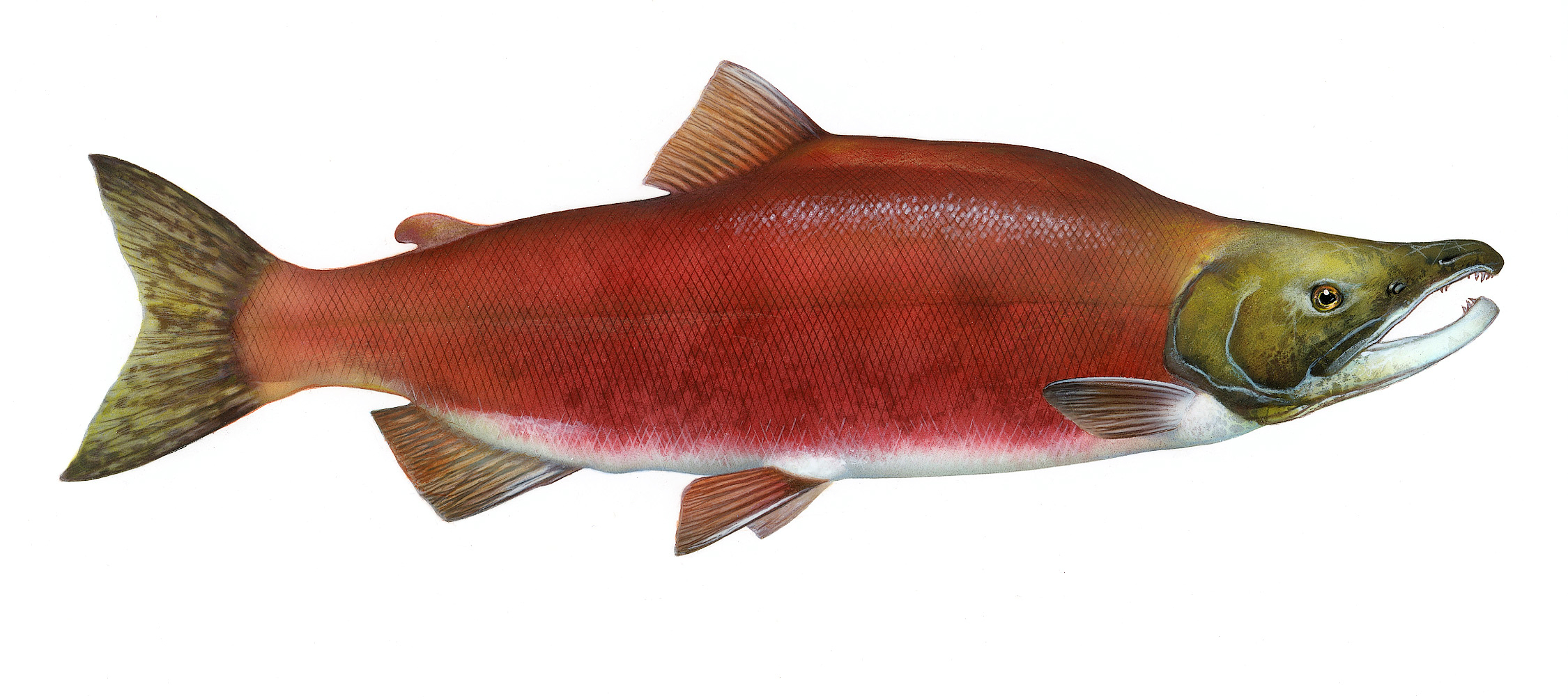 Sockeye salmon (Oncorhynchus nerka) from the Northern Pacific Ocean.